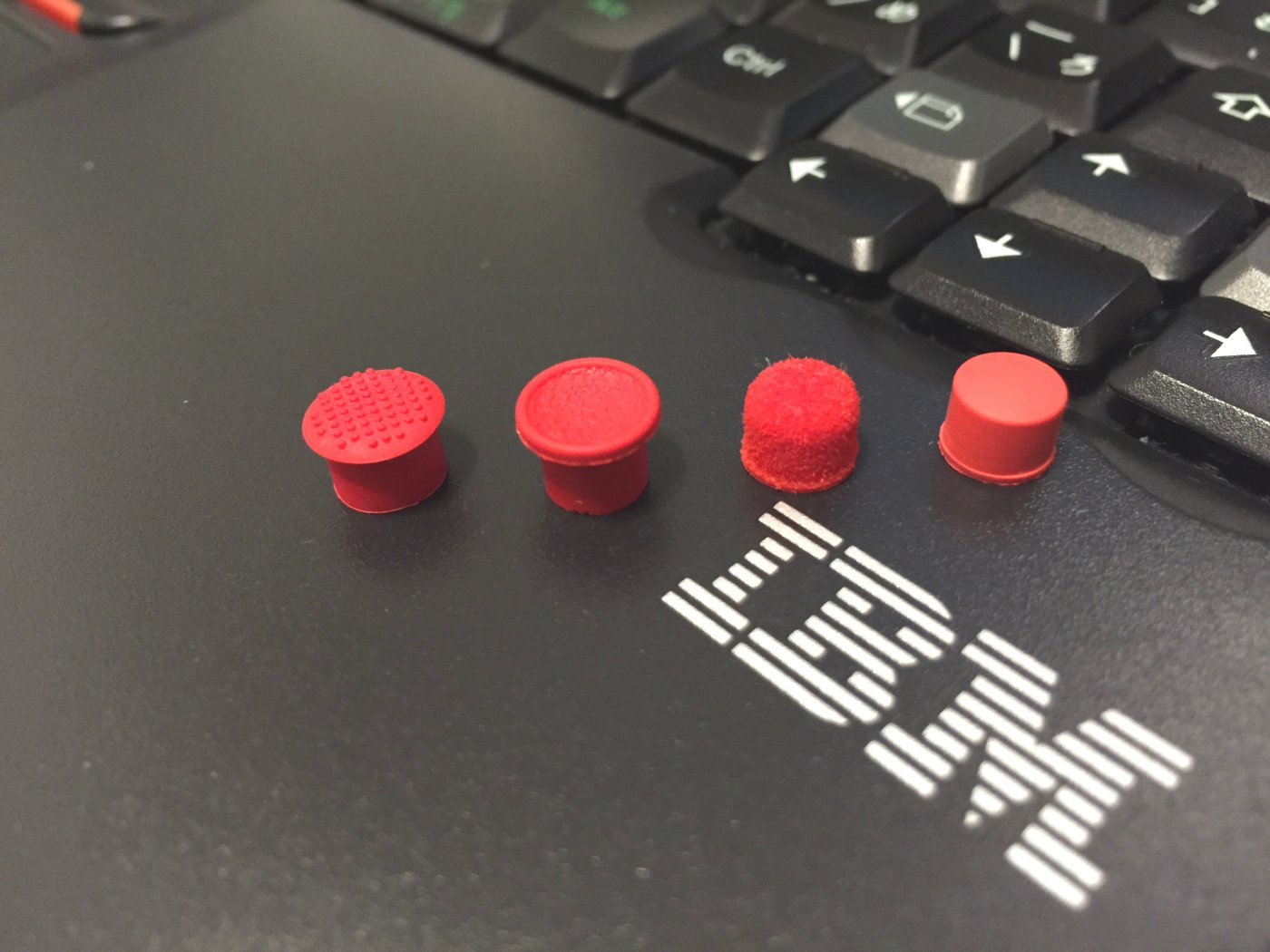 All four TrackPoint caps: Soft Dome, Soft Rim, Classic Dome and the fourth discontinued 'eraser head' style found on earlier ThinkPads and Model M keyboards.